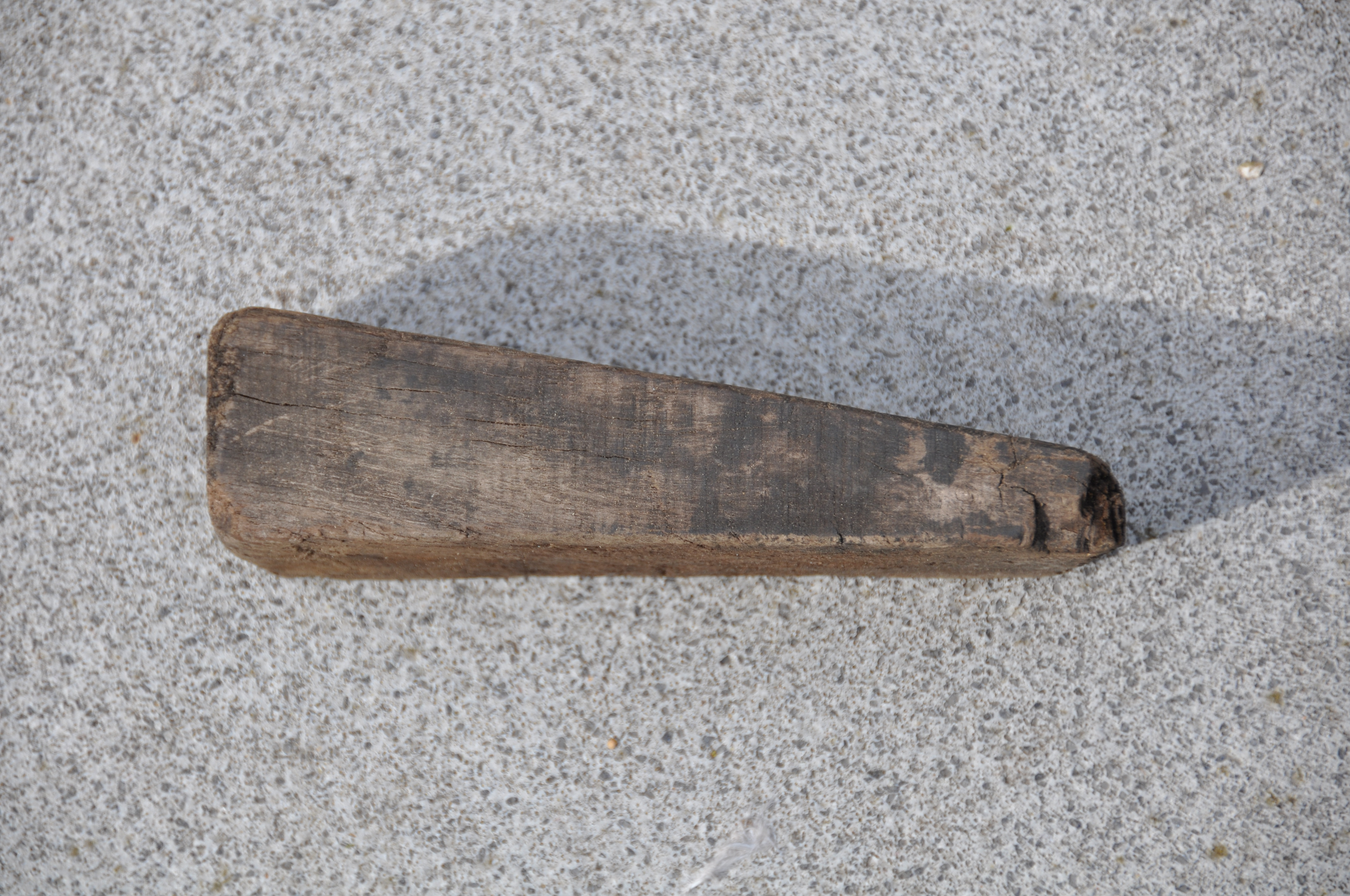 Wedge